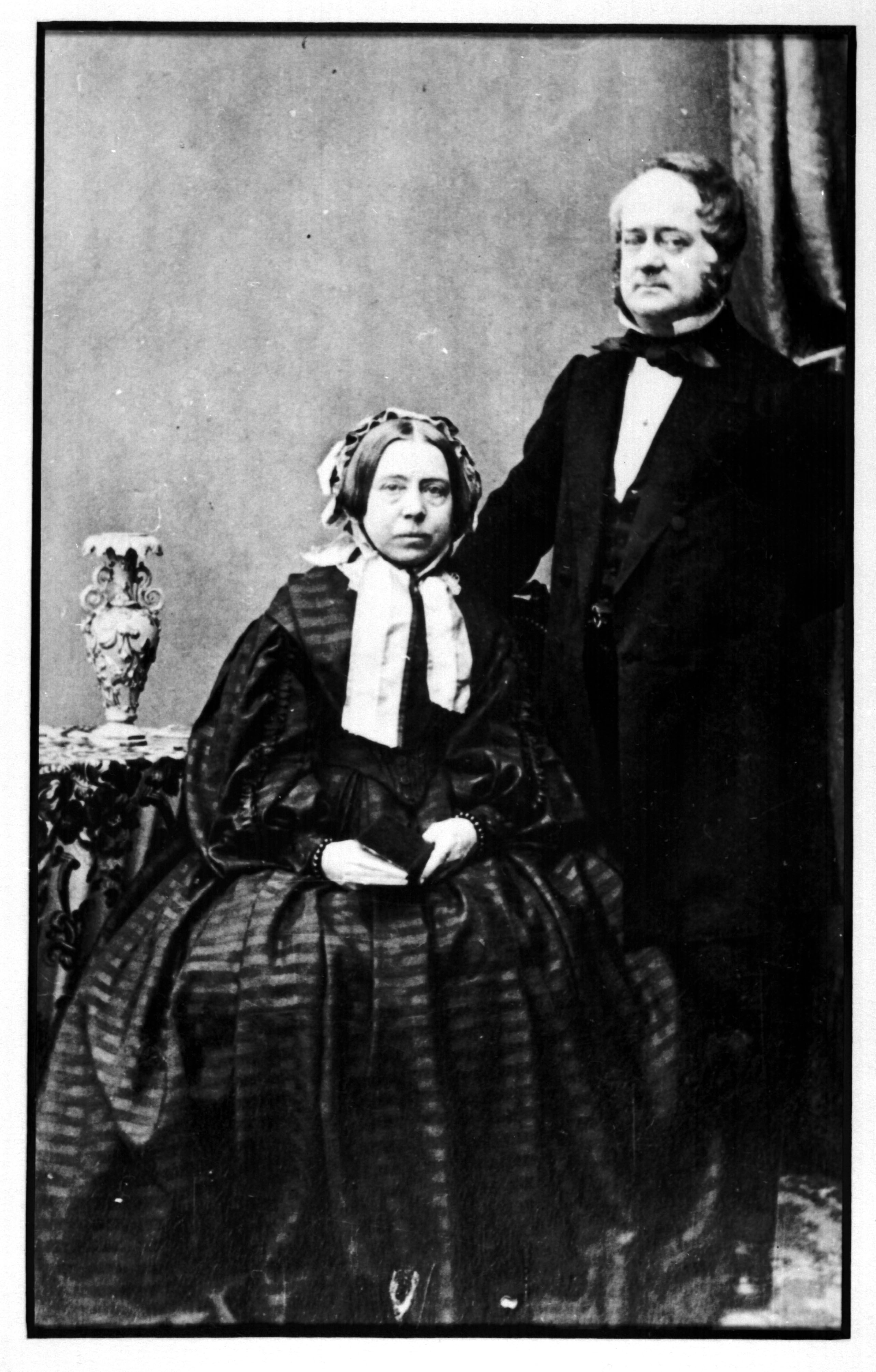 Artist: unknown Date/place: unknown Subject: Gesine & Alexander Grieg Medium: photographic positive, B&W Notes:Edvard Grieg's parents Persistent URL: [#//bergenbibliotek.no/digitale-samlinger//engelsk/-intro-eng” Original belongs to the Edvard Grieg Archives at Bergen Public Library] Original reference: EGM0046